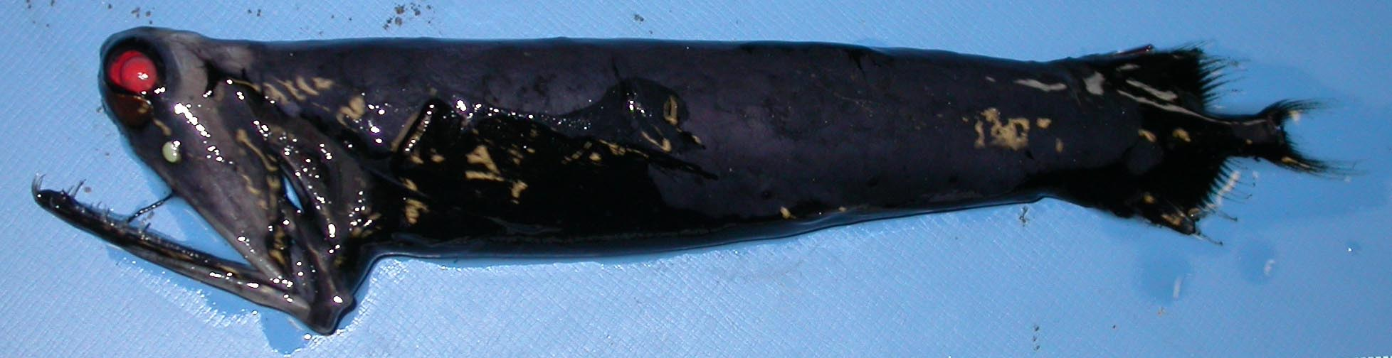 Loosejaw (Malacosteus niger) trawled from 1,500 m